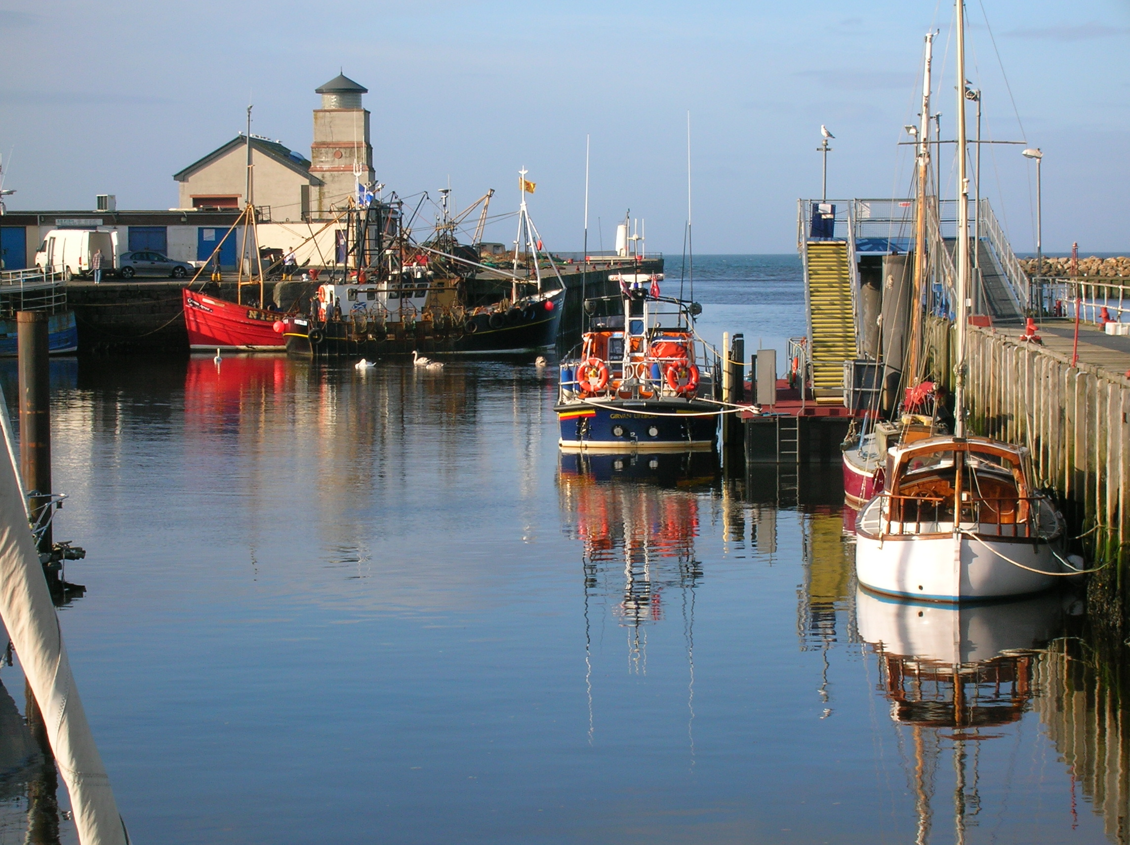 Girvan Harbour, South Ayrshire, Scotland